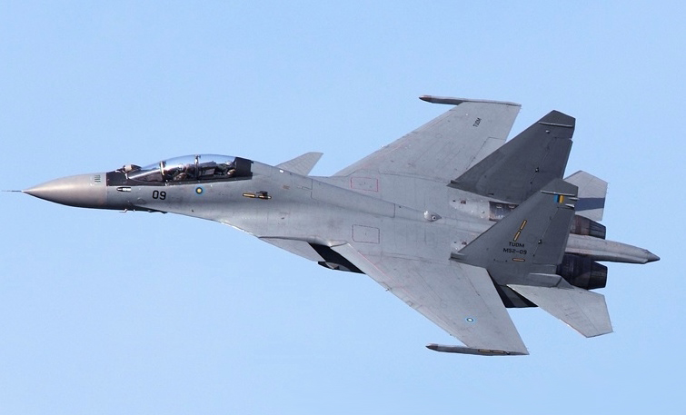 Su30mkm flying at lima two